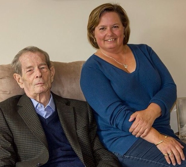 Regele Mihai I si Principesa Sofia